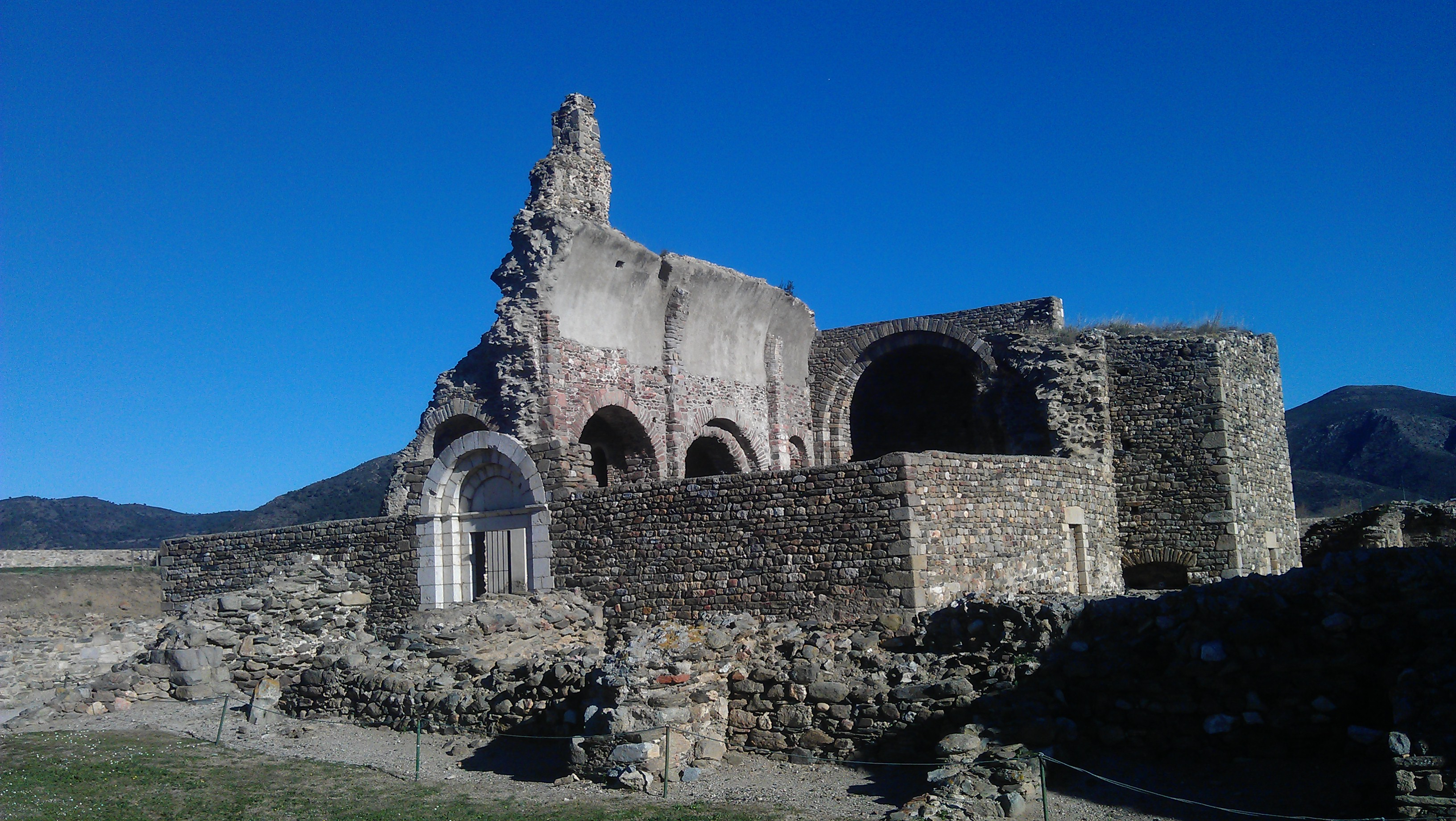 Romanic church ruin Santa Maria de Roses